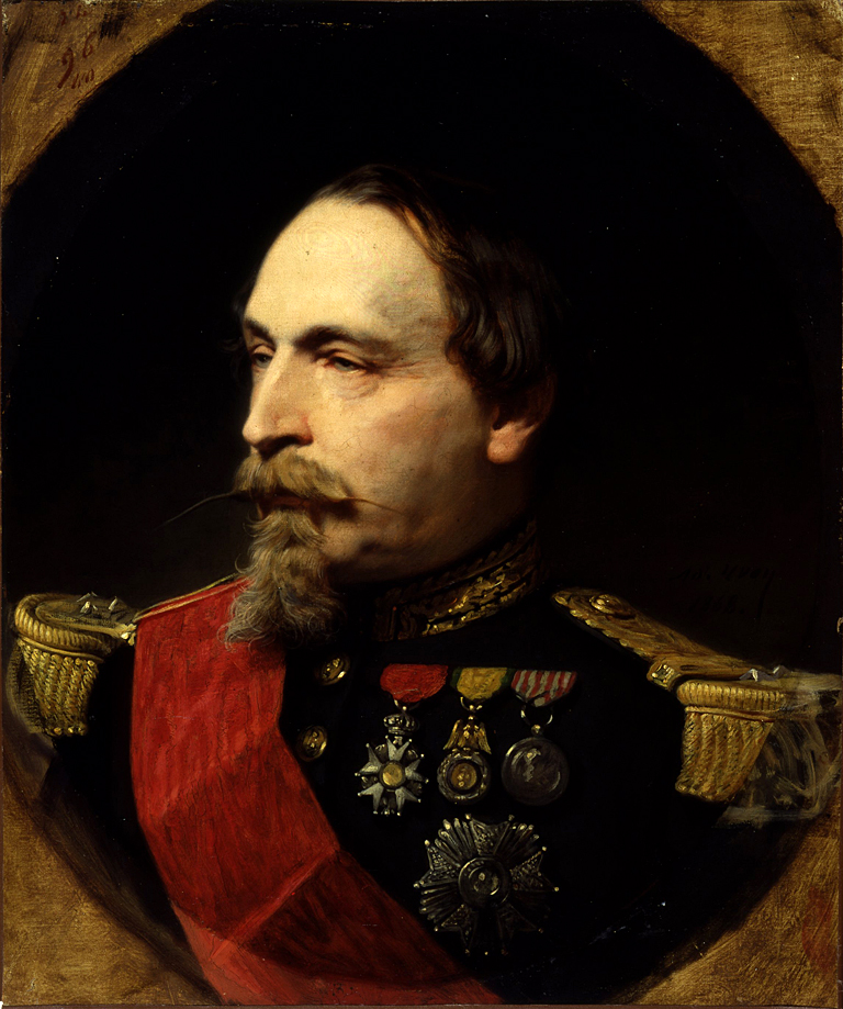 Yvon served as the principal battle-painter of France's Second Empire (1852-70), executing a number of monumental canvases for the palace at Versailles. The French emperor is shown in his prime, two years before the defeat of his forces in the Franco-Prussian War (1870-1871).